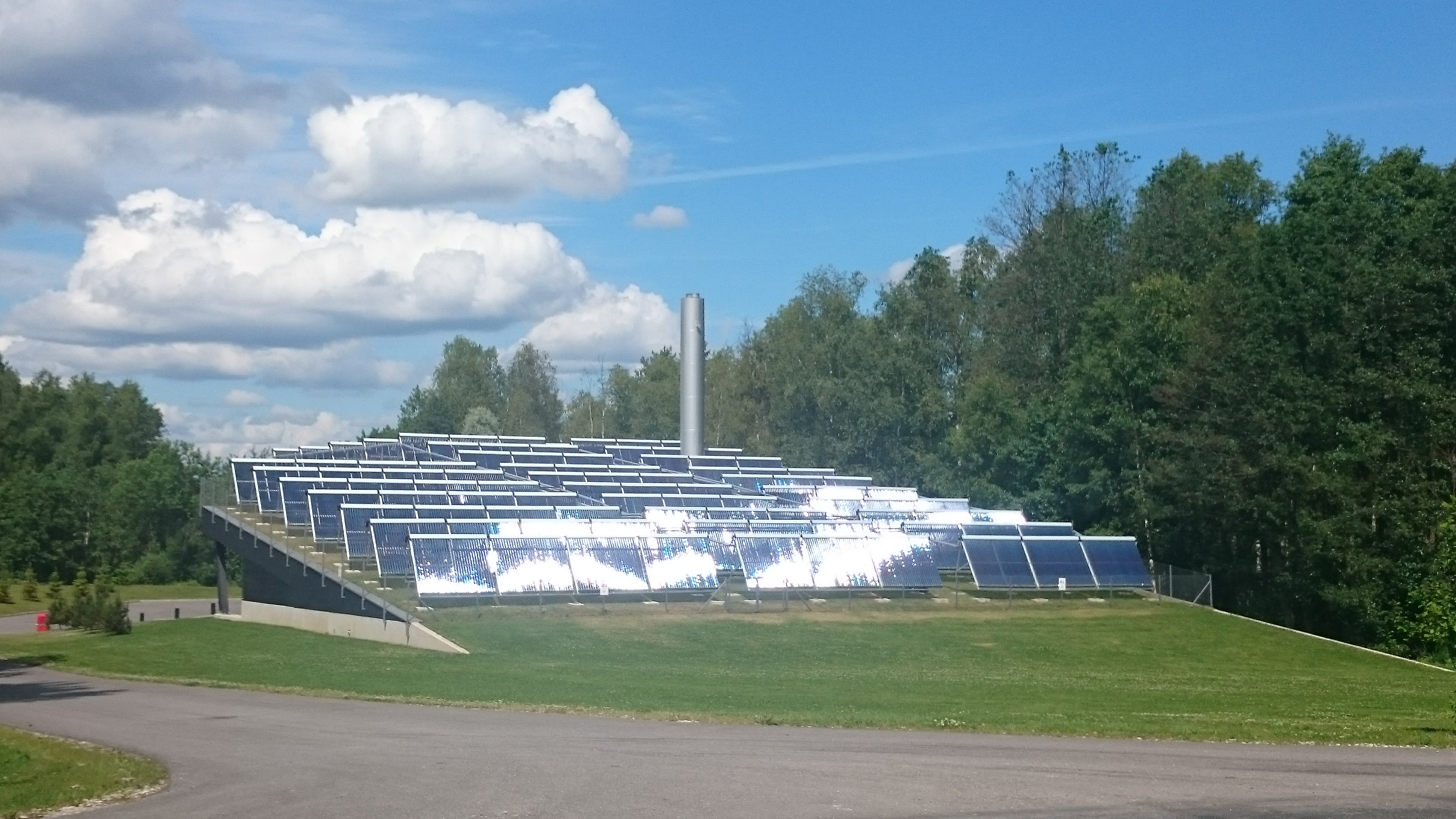 Solar thermal collectors at Pühajärve Spa & Holiday Resort Otepää, Estonia